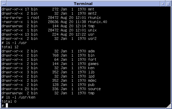 Version 6 Unix for the PDP-11, running in the SIMH PDP-11 simulator. The user ("ken") and home directory ("/usr/ken") for Ken Thompson are still present. Version 6 is considered an "Ancient Unix" and is no longer proprietary.